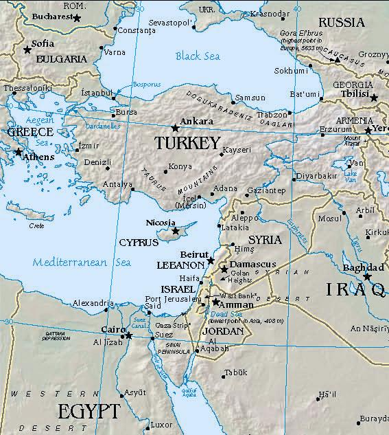 Map depicting Cyprus's geosrategic location